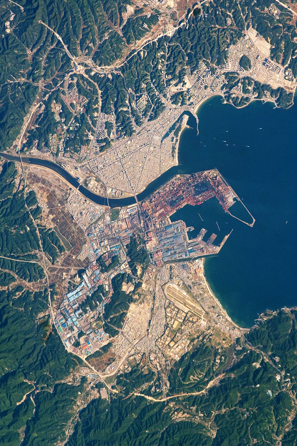 The port city of Pohang is located on the eastern coastline of South Korea and provides access to the East Sea and Sea of Japan. In this astronaut photo from June 12, 2009, the urban fabric of Pohang is strikingly divided by the Hyeongsan River. To the west of the river, residential and commercial development is characterized by small-footprint, gray- and white-roofed buildings connected by a dense road network. The eastern side of the river is dominated by industrial development associated with the Pohang Iron and Steel Company (POSCO) steelyard. This development (image center) includes large factory and storage buildings with striking light blue and light red rooftop. Green vegetated hills and mountains border the urban area to the east, west, and south, and several vegetated hills remain within the industrial area. Numerous boat wakes are also visible to the east-northeast of the POSCO steelyard docks. While the Pohang area has been occupied by small fishing villages since approximately 1500 BC, development of an urban area only began in 1930 when harbor facilities were constructed. POSCO began construction of a large steel mill and associated facilities in 1968, with production of steel products commencing in 1972. The steel industry is still a major component of the city’s economic base, but recent efforts to lessen dependance on heavy industry has fostered new interest in environmentalism and culture within Pohang. Astronaut photograph ISS020-E-9011 was acquired on June 12, 2009, with a Nikon D2Xs digital camera fitted with a 400 mm lens. The image was taken by the Expedition 20 crew. The image here has been cropped and enhanced to improve contrast. Lens artifacts have been removed. Caption by William L. Stefanov, NASA-JSC.